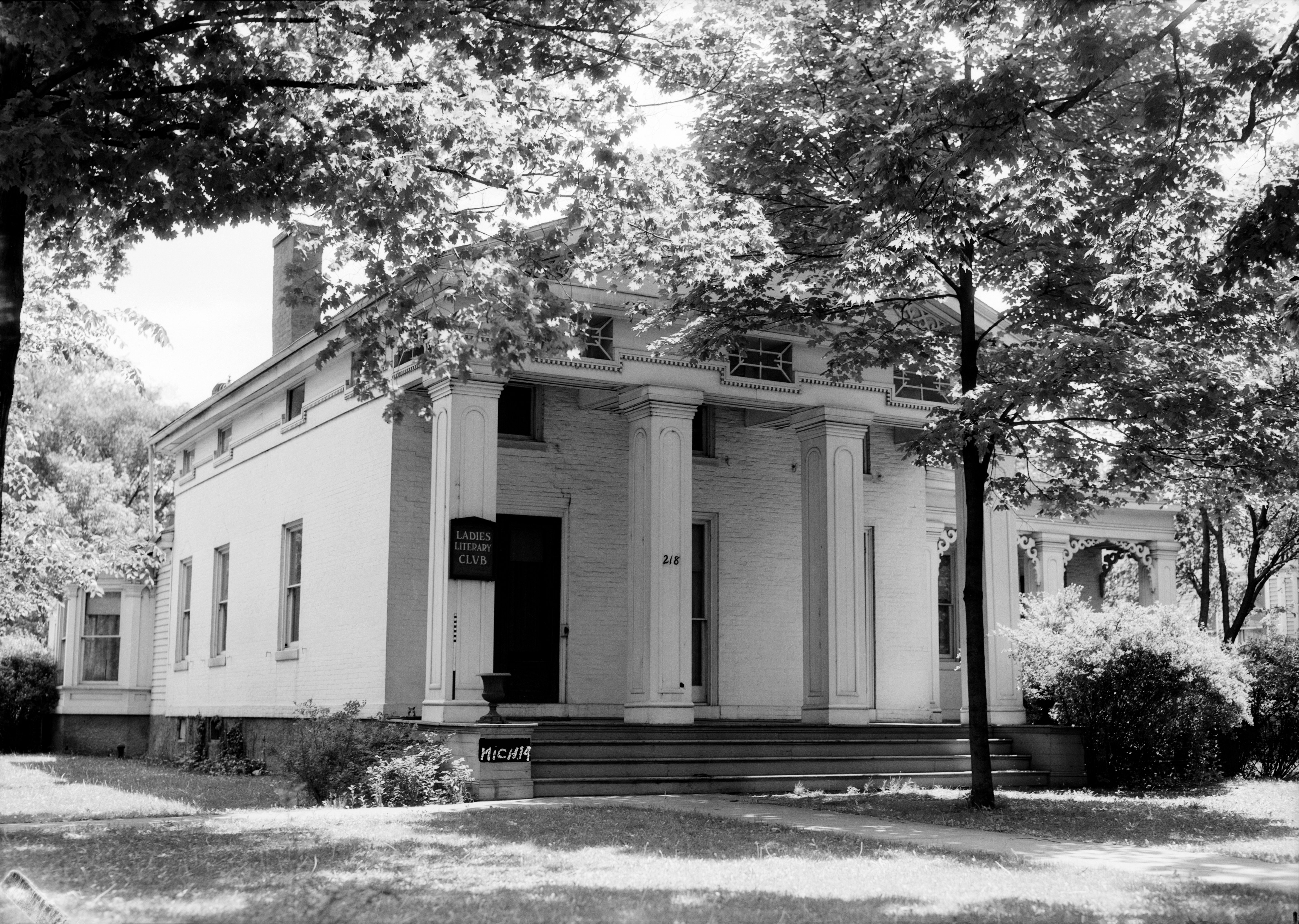 Arden H. Ballard House, 218 North Washington Street, Ypsilanti, Washtenaw County, MI. GENERAL VIEW - WEST ELEVATION (FRONT) Historic American Buildings Survey—HABS image (1936).